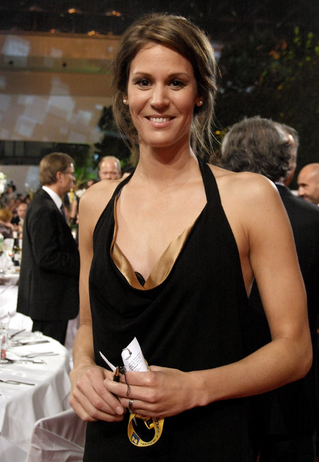 Vera Lischka at the presentation of the Austrian Sportspersonalities of the Year 2011 (Eventhotel Pyramide in Vösendorf, Lower Austria).